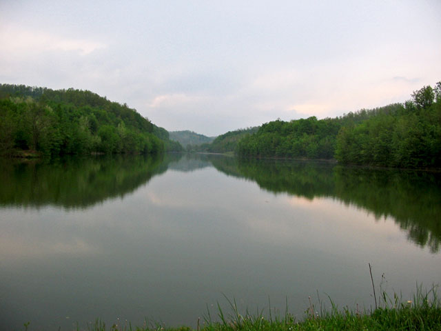 Kamenicko lake